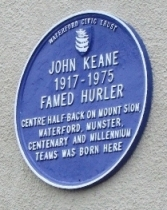 2009 Blue Heritage Plaque on the house where John Keane was born. Erected by Waterford City Trust